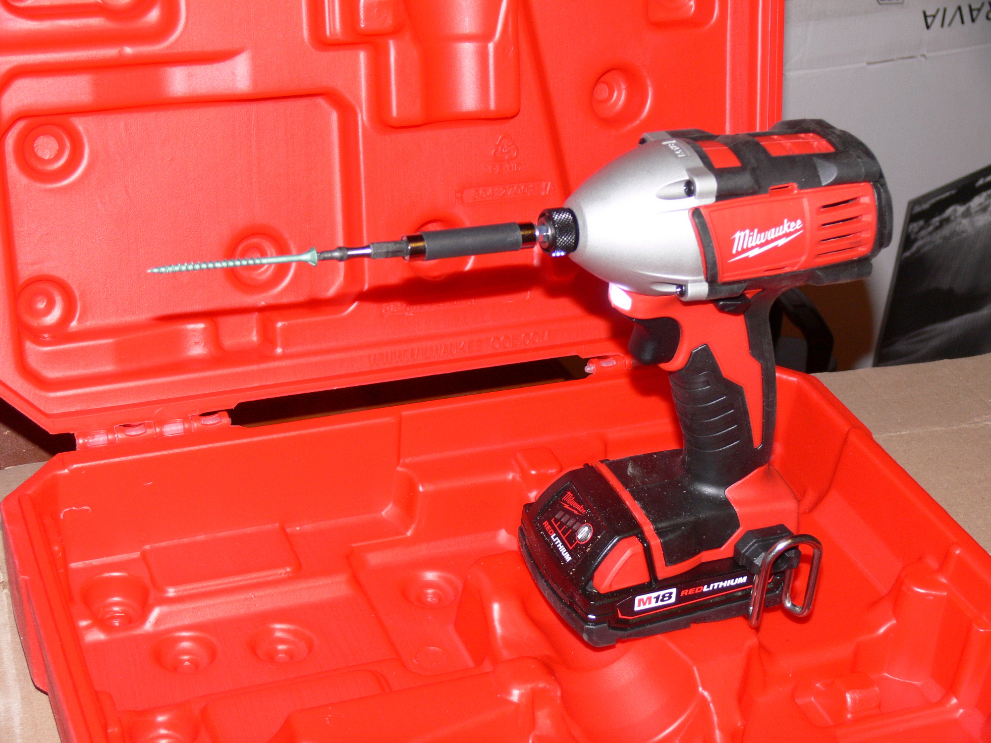 Milwaukee 18v impact driver with Lithium-ion rechargeable battery